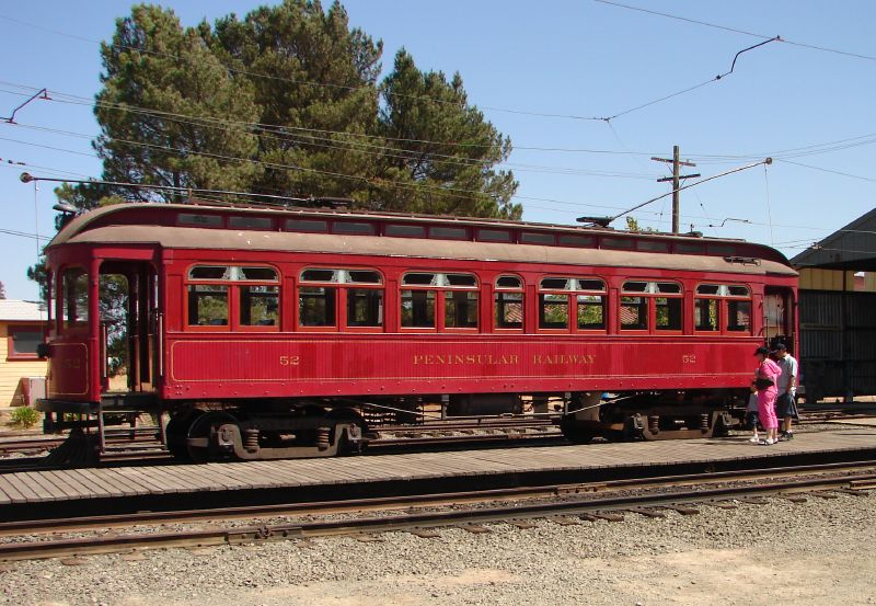 Travel by interurban was faster than today's commutes by freeway. Sacramento to San Francisco in less than two hours! /Peninsular Railway #52